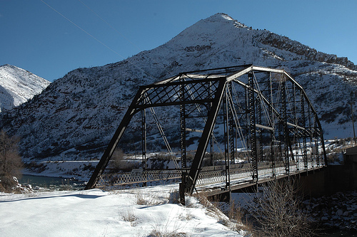 South Canon Bridge, a pedestrian footbridge in Glenwood Springs, Colorado, USA